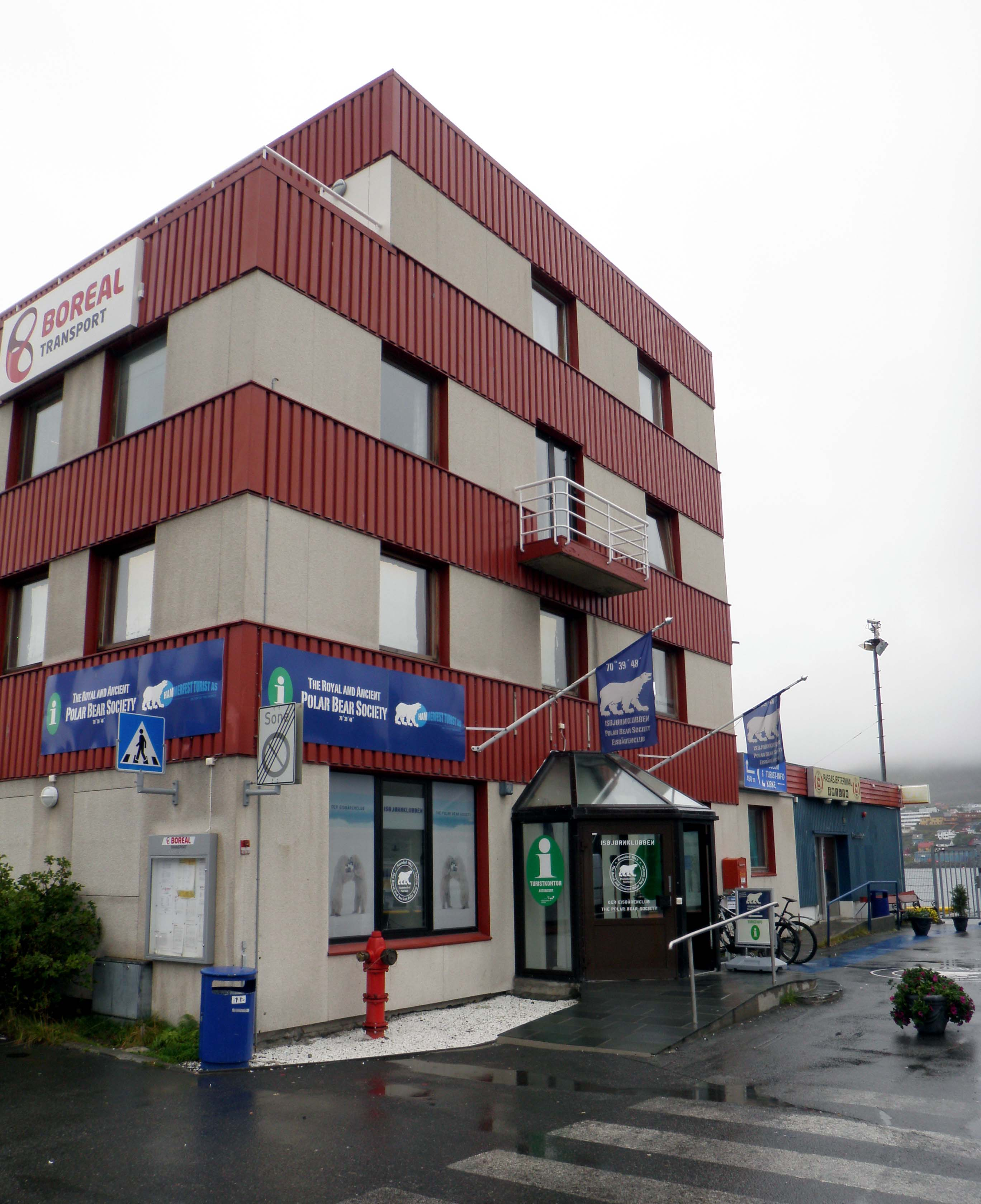 The building housing both the Royal and Ancient Polar Bear Society and the local tourist information centre, in Hammerfest, Norway.